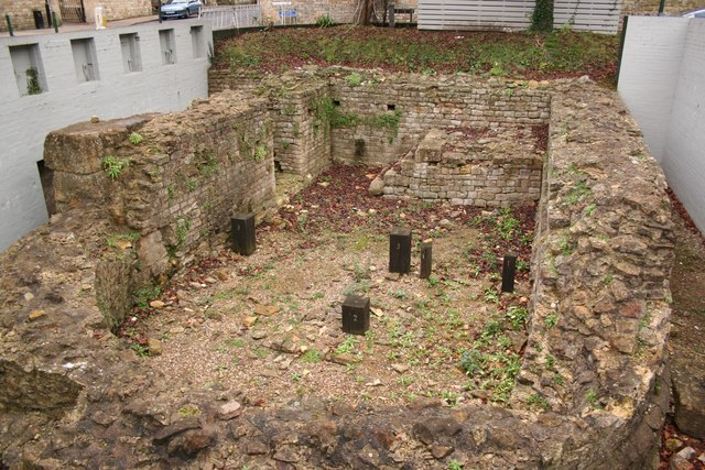 The base of one of the towers of the 3rd century Roman East Gate to Lindum Colonia